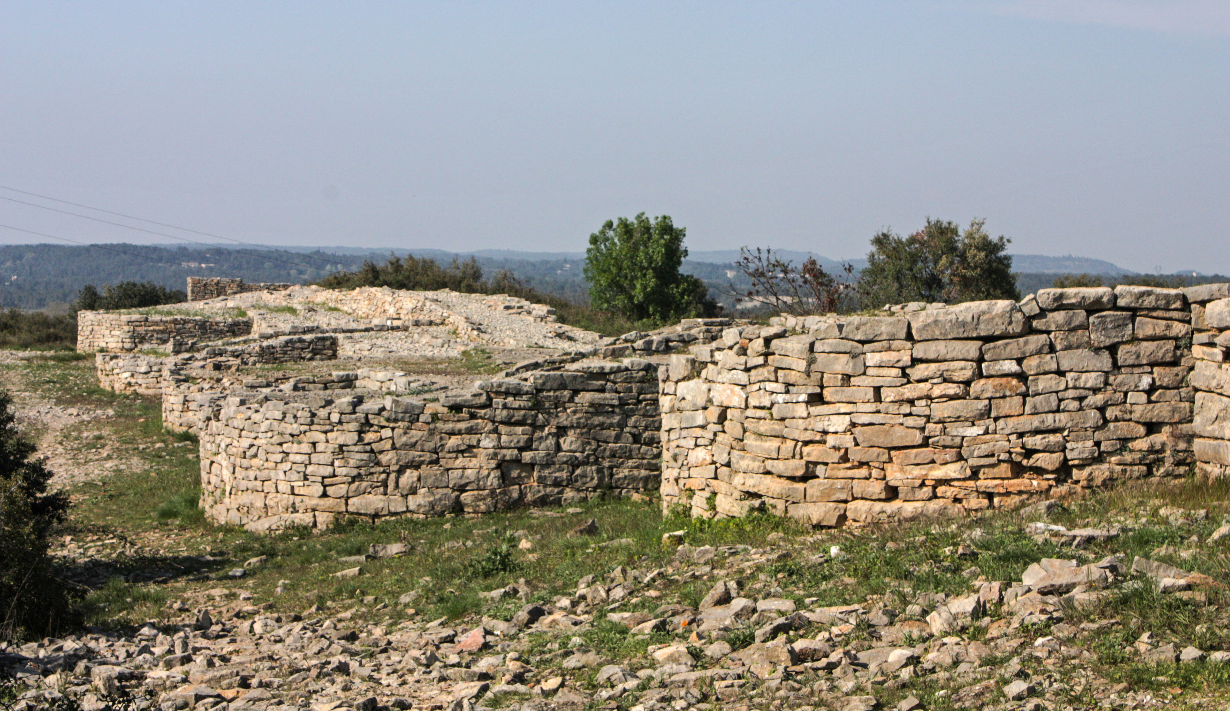 The walls on the western crest..